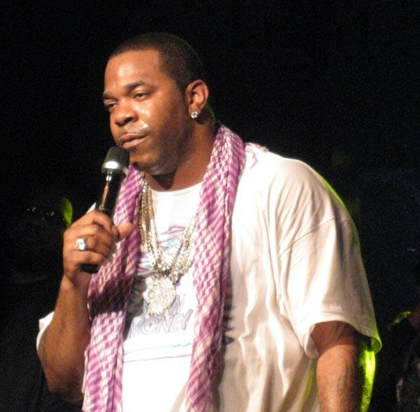 Busta Rhymes performing at Knitting Factory in 2008.